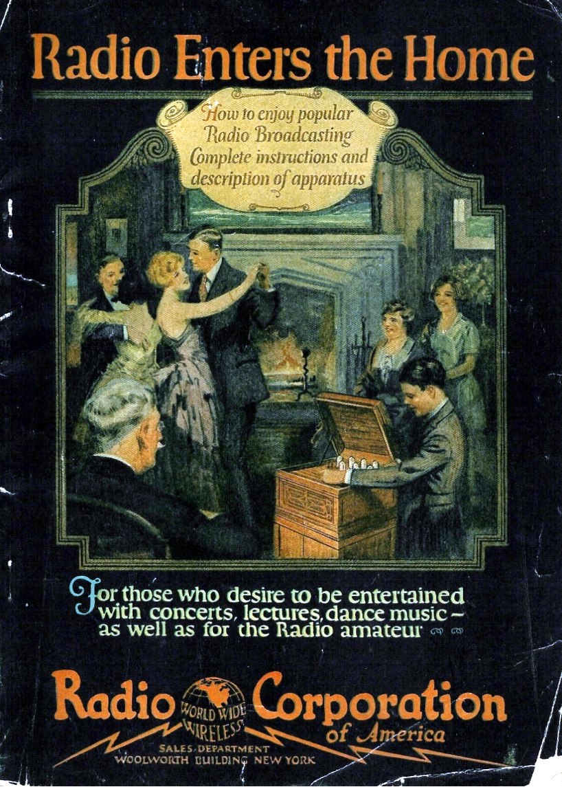 Illustration included in an advertisement for the Radio Corporation of America, showing the front cover of the company's Radio in the Home equipment catalog